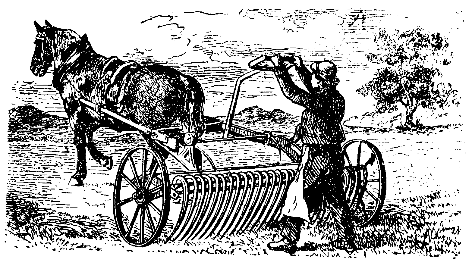 Horse-powered rake, picture of ~1900